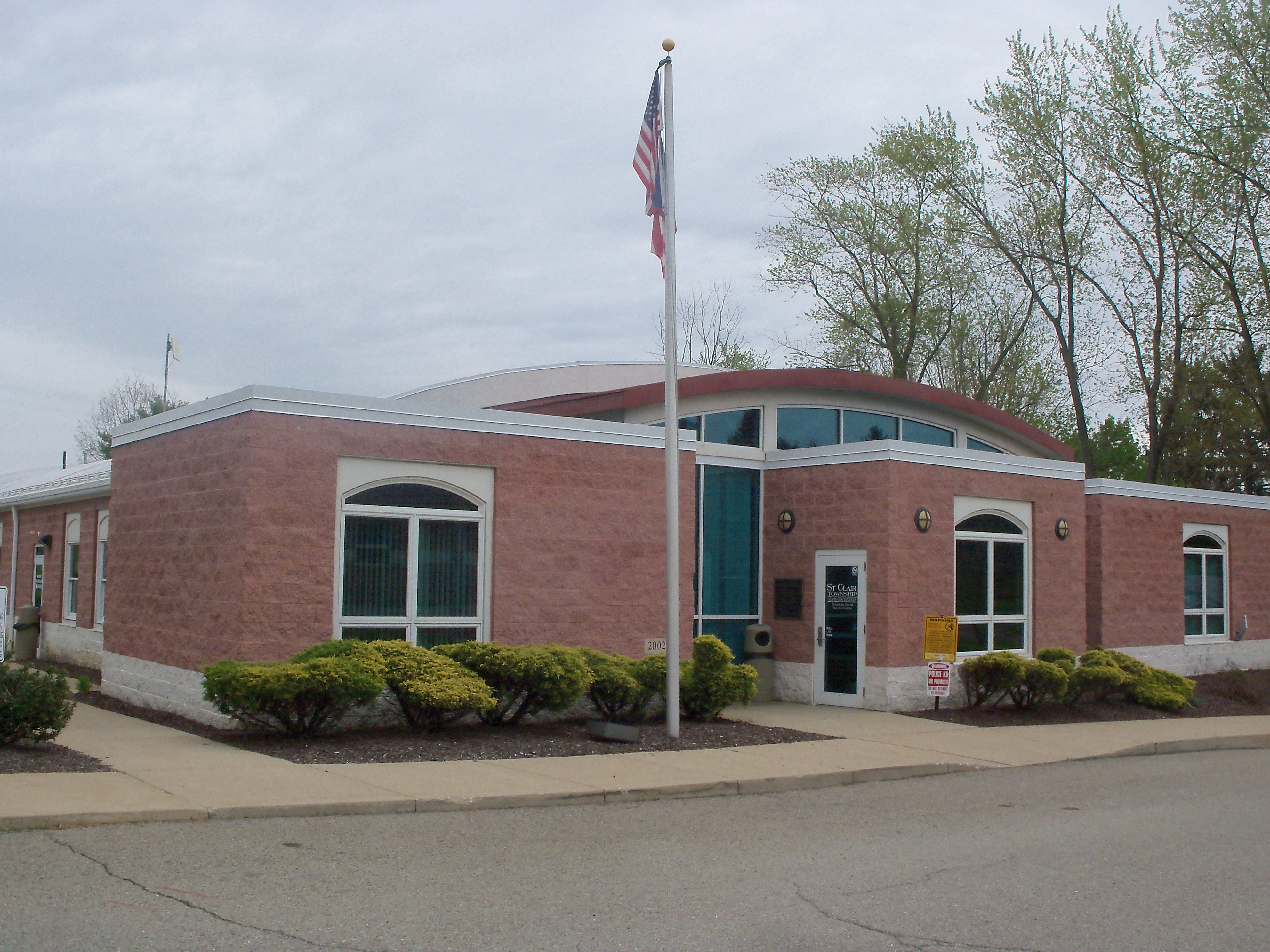 Town Hall of St. Clair Township, Columbiana County, Ohio in Calcutta, Ohio